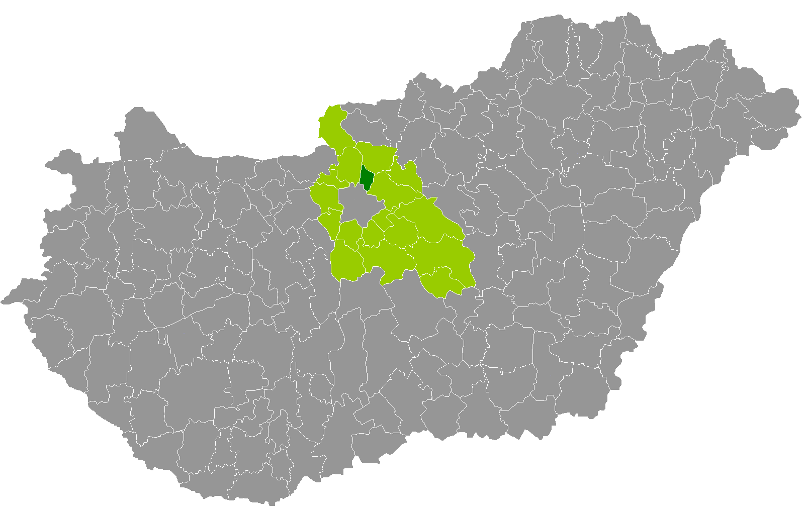 Location of Dunakeszi District, Pest, Hungary